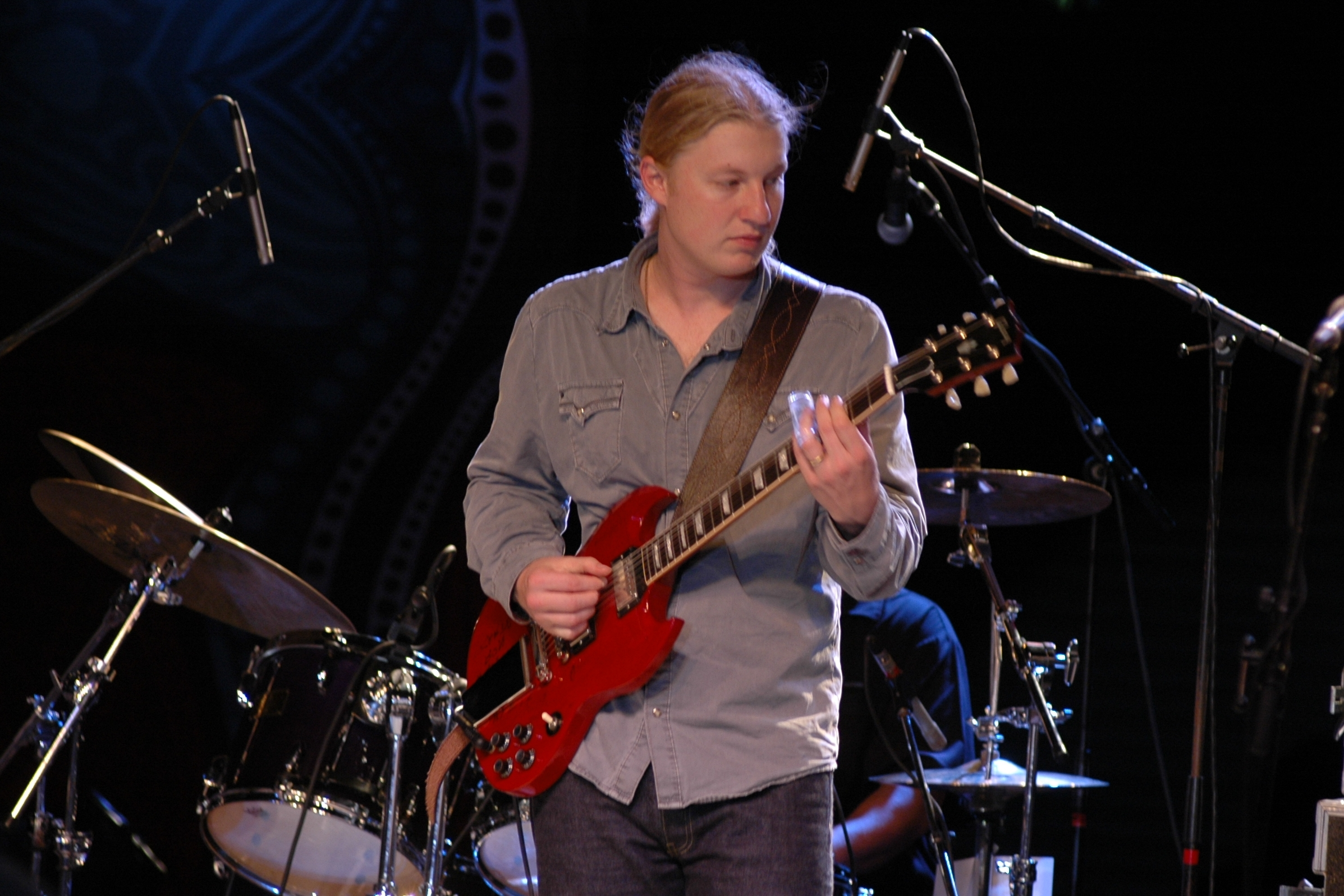 Live at the Pompano Beach Amphi-theatre December 29, 2006